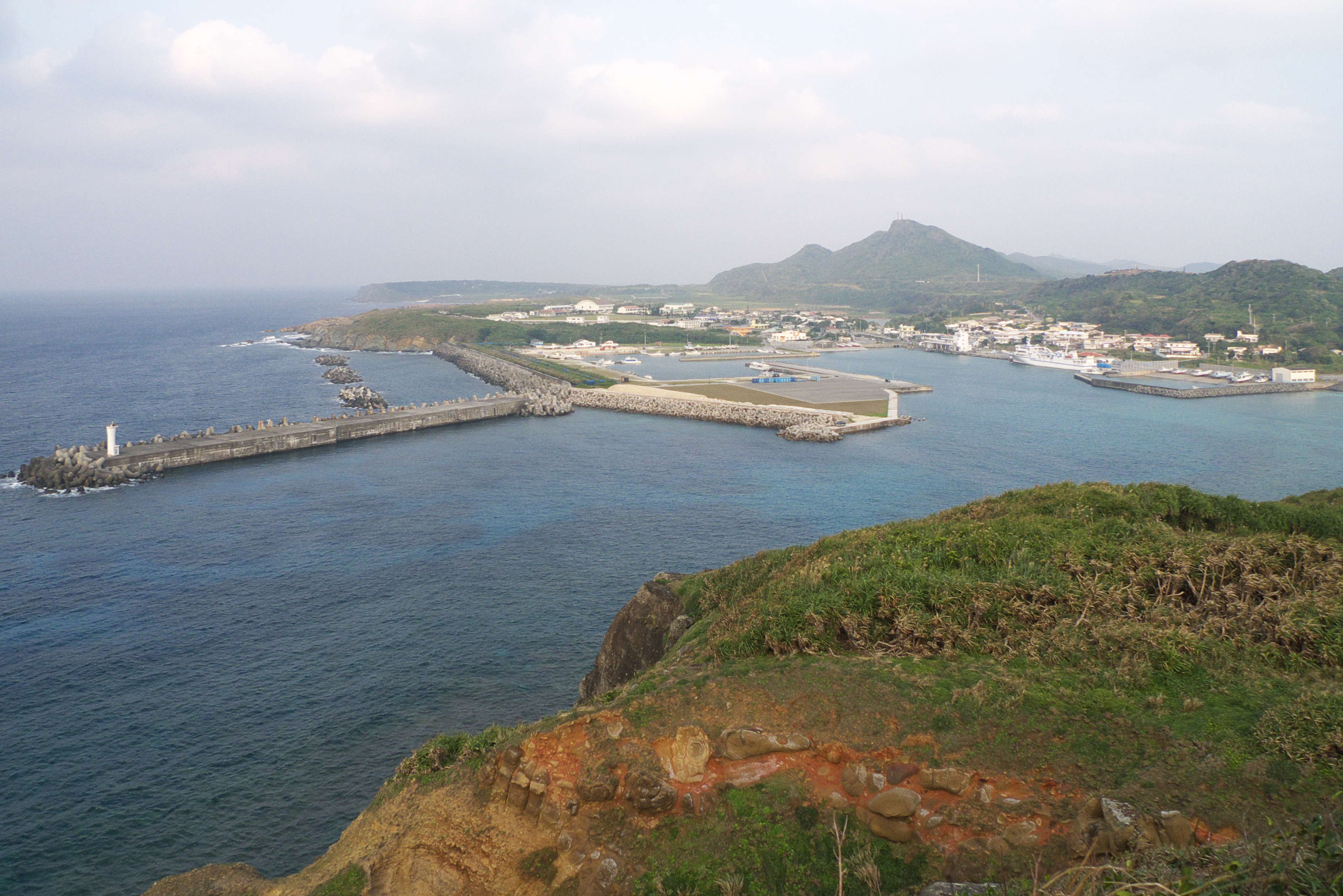 Port of Kubura in Yonaguni Town, Okinawa Prefecture, Japan, seen from Irizaki cape